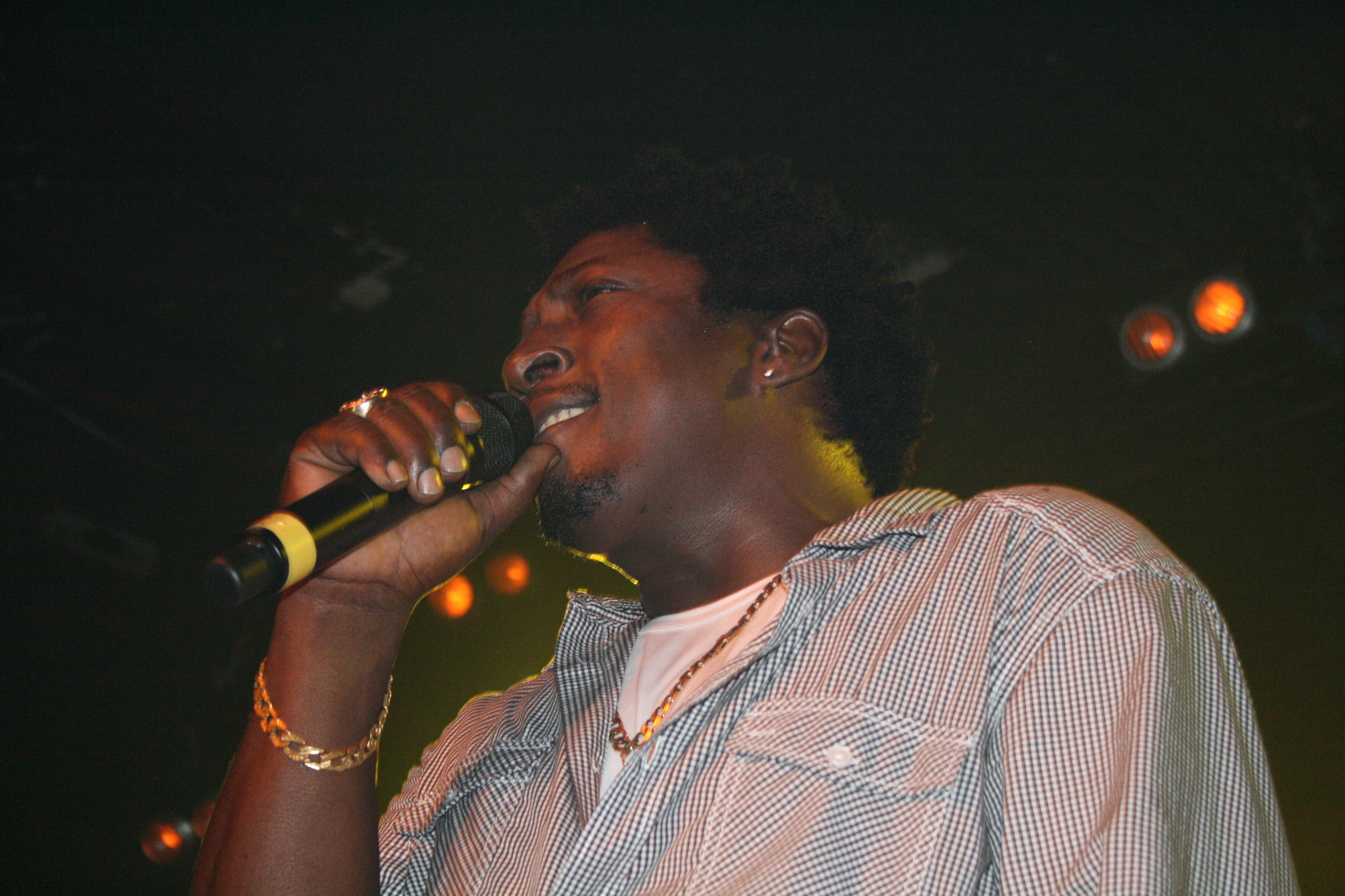 Chaka Demus & Pliers concert in Göta Källare, Stockholm 4th of august 2009, Stockholm, Sweden.